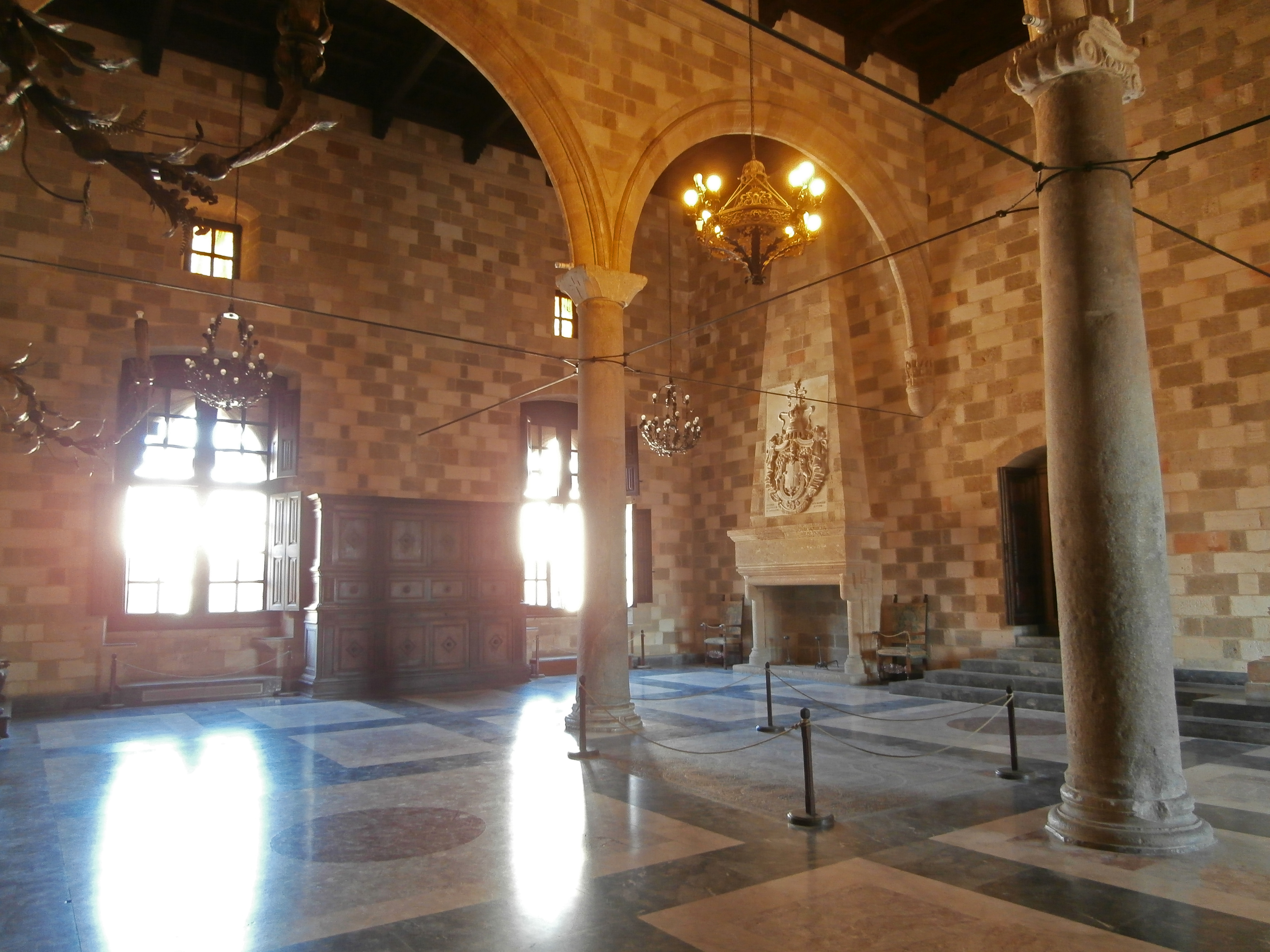 Μedieval City of Rhodes - Palace of the Grand Master of the Knights of Rhodes - Interior«Μεσαιωνική πόλη Ρόδου»